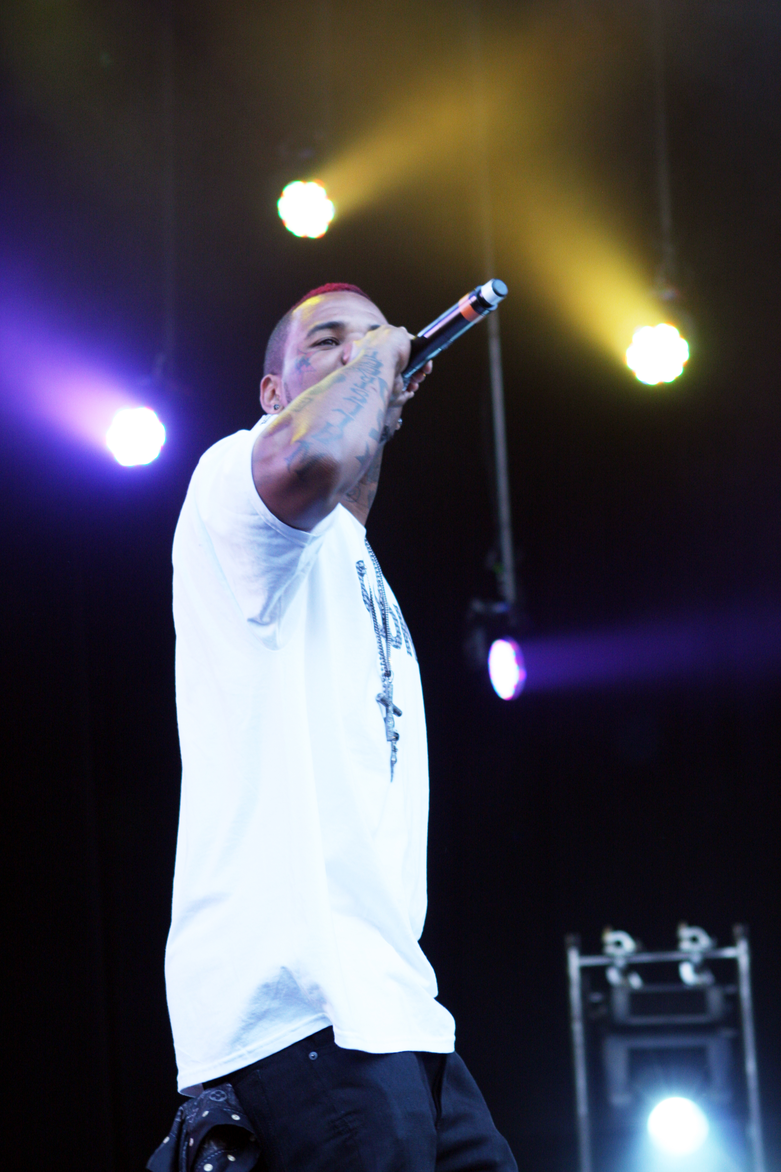 The Game Supafest Eva Rinaldi Photography